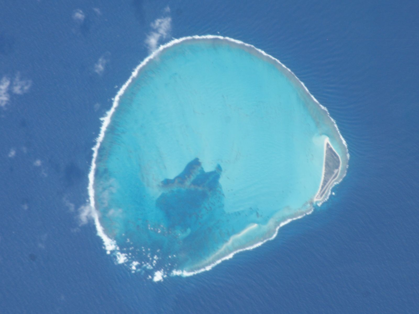 NASA astronaut image of Kure Atoll, Northwestern Hawaiian Islands